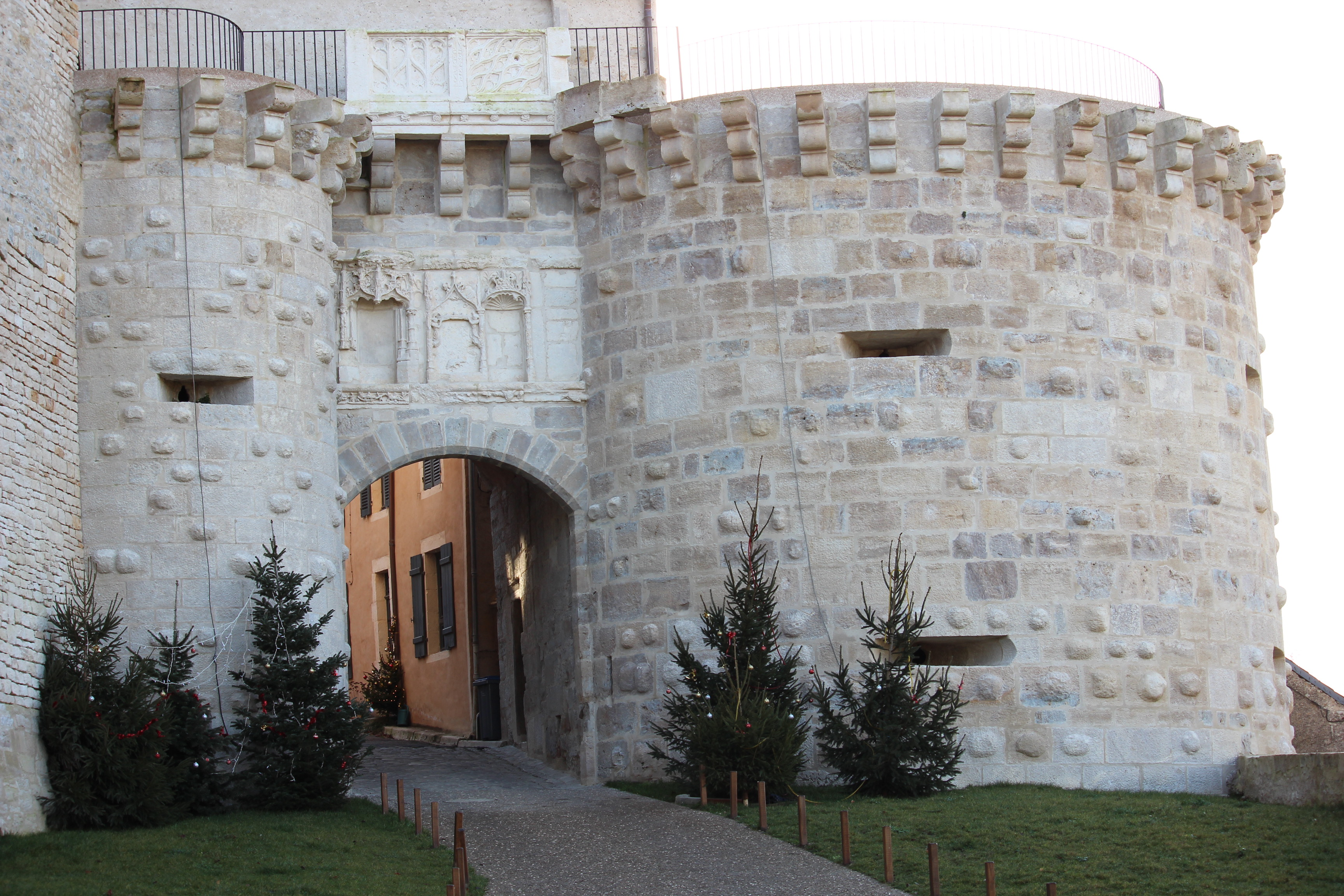 Vezelay